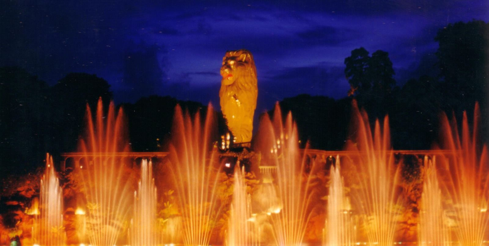 The dancing fountains show at night, at Sentosa Island, Singapore in September 1999. This was taken with a Canon EOS Rebel camera (S-II or G).